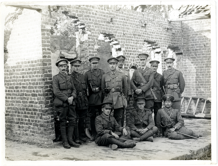 Officers of the 39th Garhwalis [Estaires La Bassée Road, France].